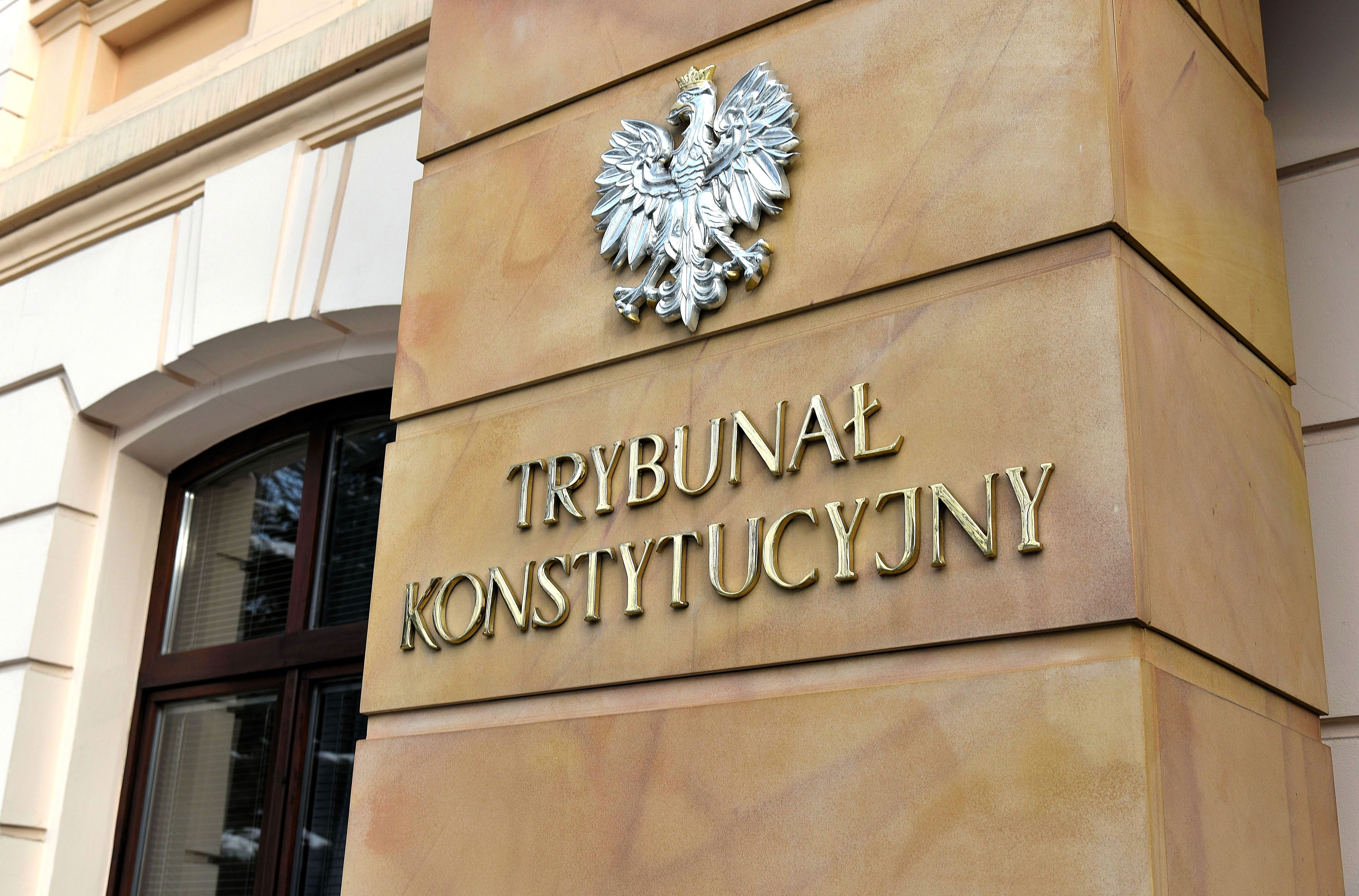 Entrance to the building of the Polish Constitutional Tribunal